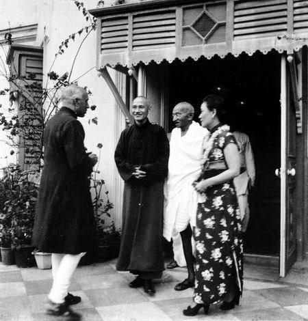 10 Feb 1942, Generalissimo Chiang Kai-Shek, Head of China, and First Lady Madame Chiang visited India. The couple were welcomed by the hosts Mahatma Gandhi and Jawaharlal Nehru. The photo was taken by the Republic of China Government on 10 Feb 1942. The copyright has been expired after 50 years.